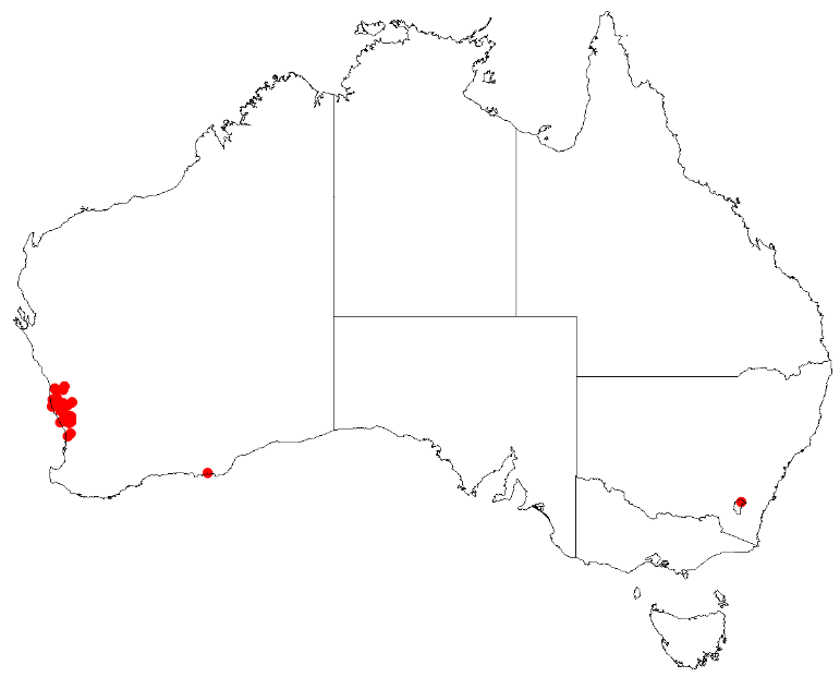 Anigozanthos pulcherrimus occurrence data Downloaded from Australasian Virtual Herbarium 12 May 2017